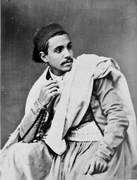 Algerian urban dress (with burnous on his shoulder)